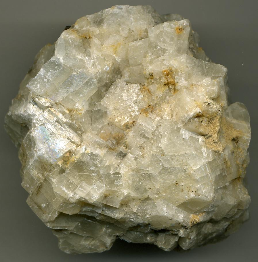 Calciocarbonatite (sovite) (Magnet Cove Carbonatite, mid-Cretaceous; Cove Creek, Hot Spring County, Arkansas, USA) 2. Specimen is 7.5 cm across, composed almost entirely of calcite.